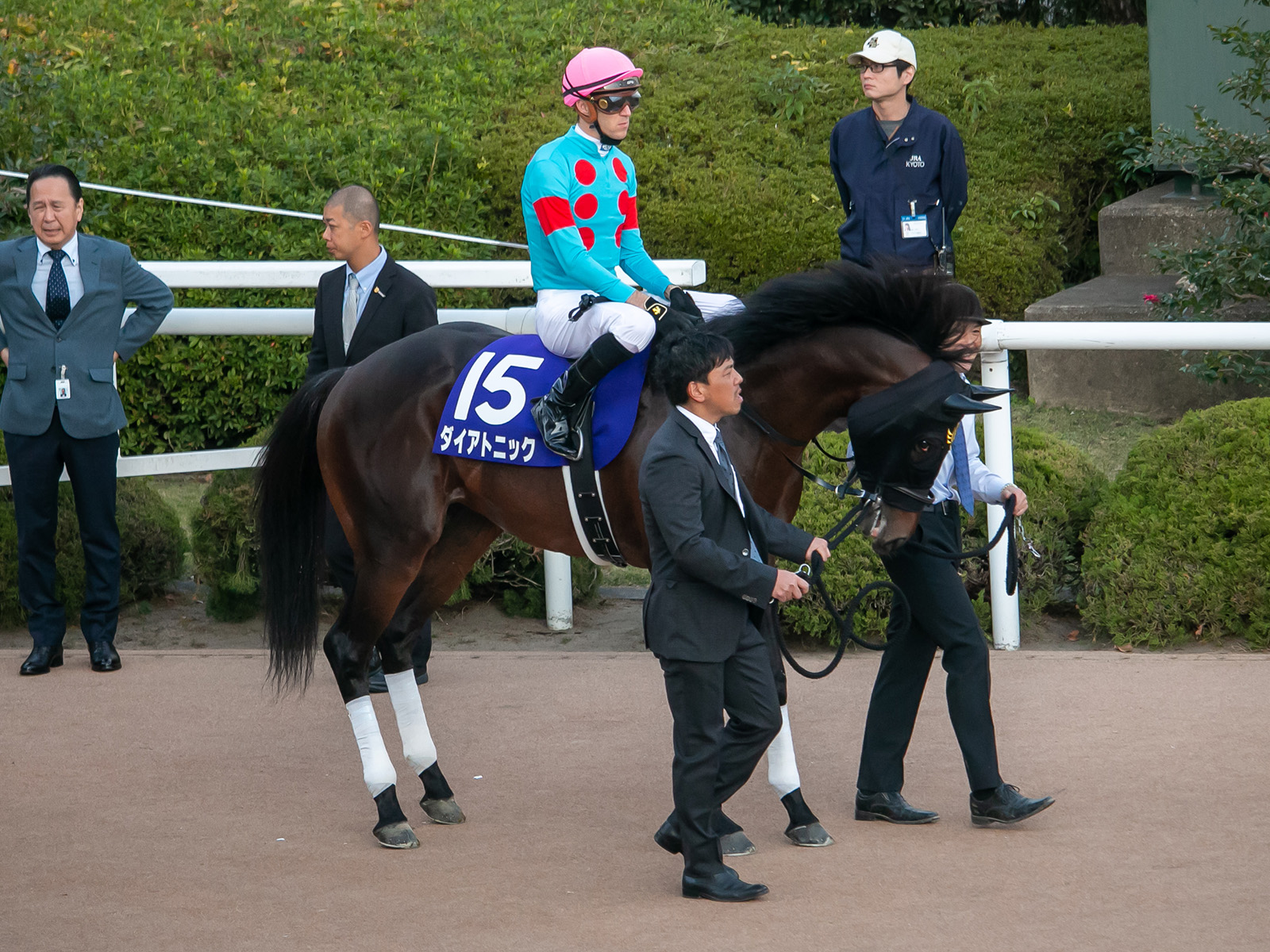 Diatonic(JPN), Racehorse of Japan.